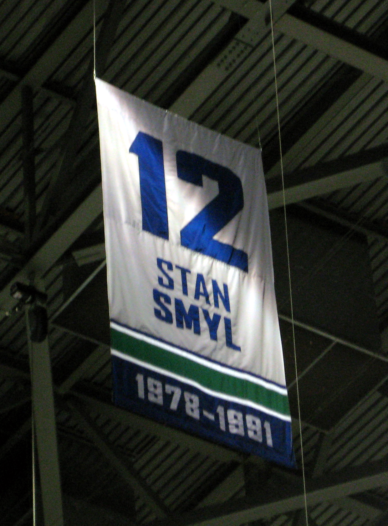 Vancouver Canuck Stan Smyl's retired #12 banner